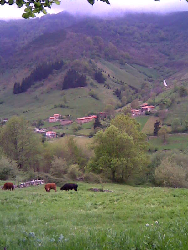 Selviejo (Luena, Cantabria) seen from Carrascal de San Miguel